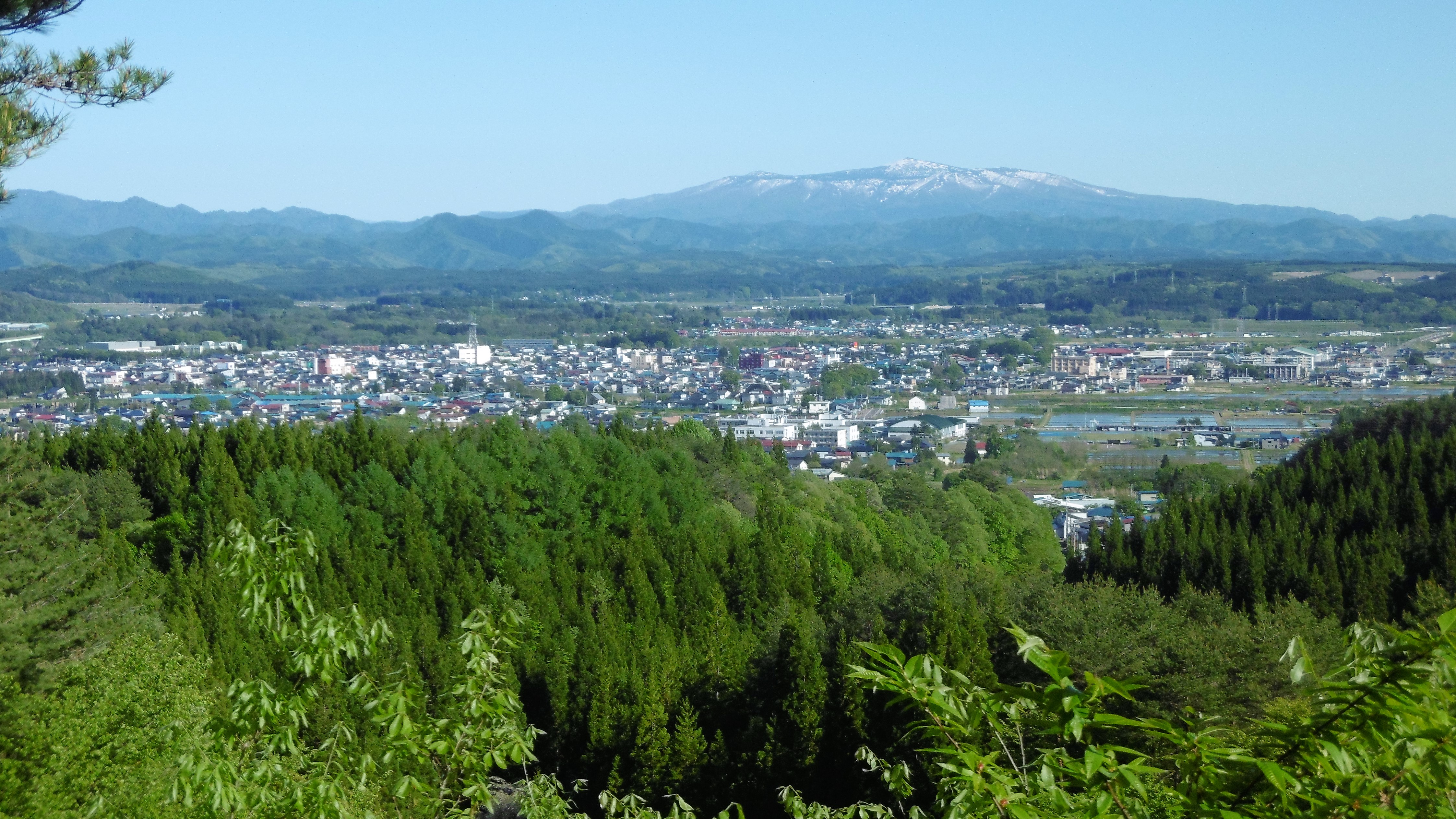 Mount Moriyoshi as seen from the NNW. Shot at northern tip of the takanosu basin in Kitaakita city, Akita prefecture, Japan.